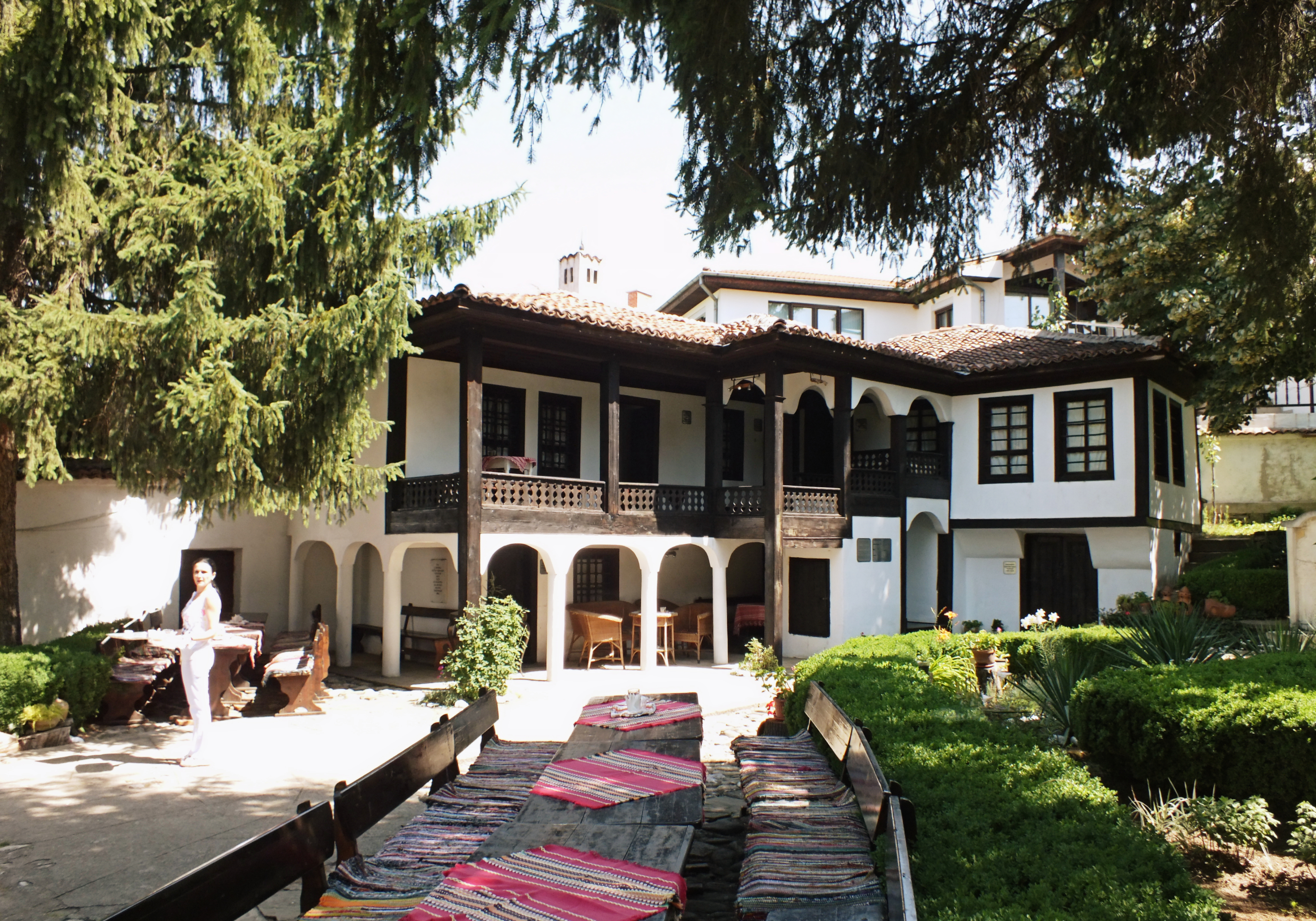 Kazanlak, Koulata Ethnographic Complex